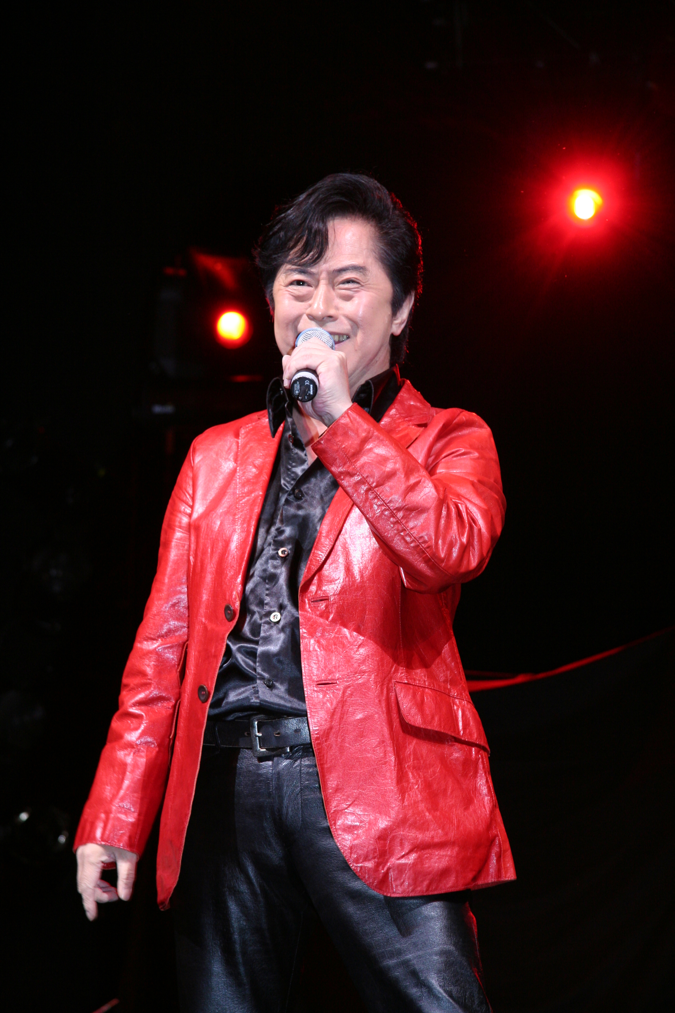 Ichiro Mizuki live at Japan Expo 2007 (Paris, France).